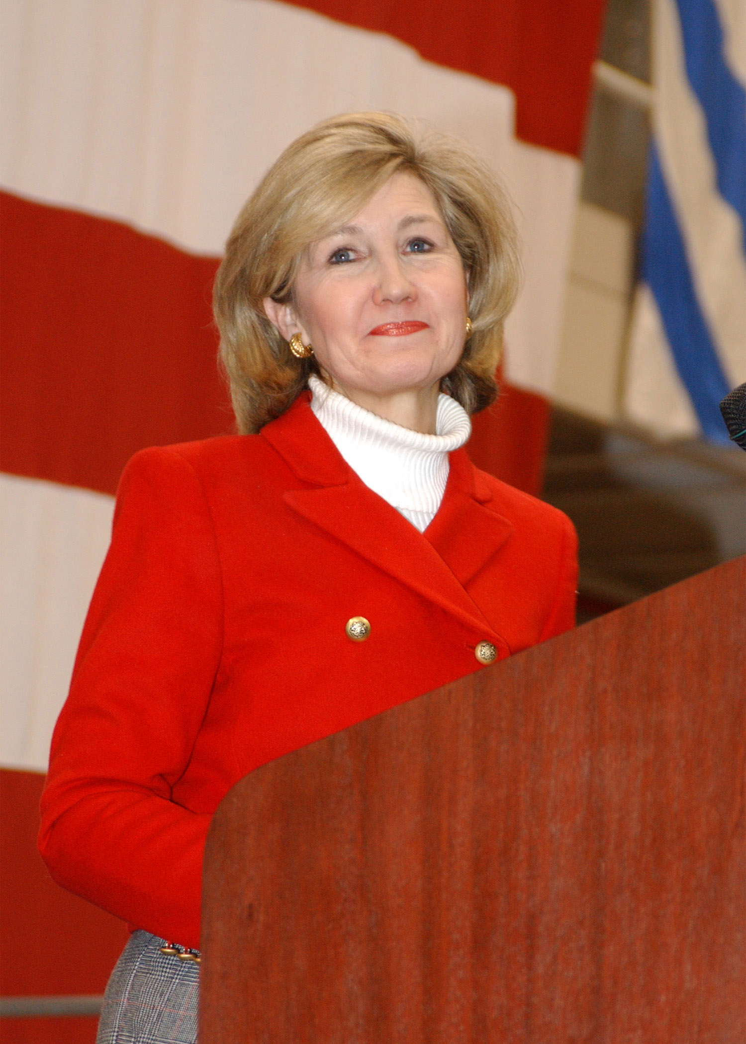 040111-N-1328C-507 Fort Worth, Texas (Jan. 11, 2004) -- Chairwoman for the Subcommittee on Military Construction, Senator Kay Bailey Hutchison, R-Texas, meets with over 300 naval reservists and active duty Sailors assigned to the Lone Star Express of Fleet Logistics Support Squadron Five Nine (VR-59) and the Hunters of Strike Fighter Squadron Two Zero One (VFA-201). Senator Hutchison spoke about the heroic efforts of the “Hunters” in a Senate floor speech last year and was on hand to present a copy of the speech to members of the squadron. Both squadrons are stationed at the Naval Air Station, Joint Reserve Base, Fort Worth, Texas. U.S. Navy photo by Chief Photographer’s Mate Eric A. Clement. (RELEASED)